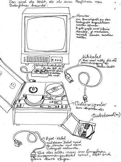 Erklärung eines Portapak Videogerätes